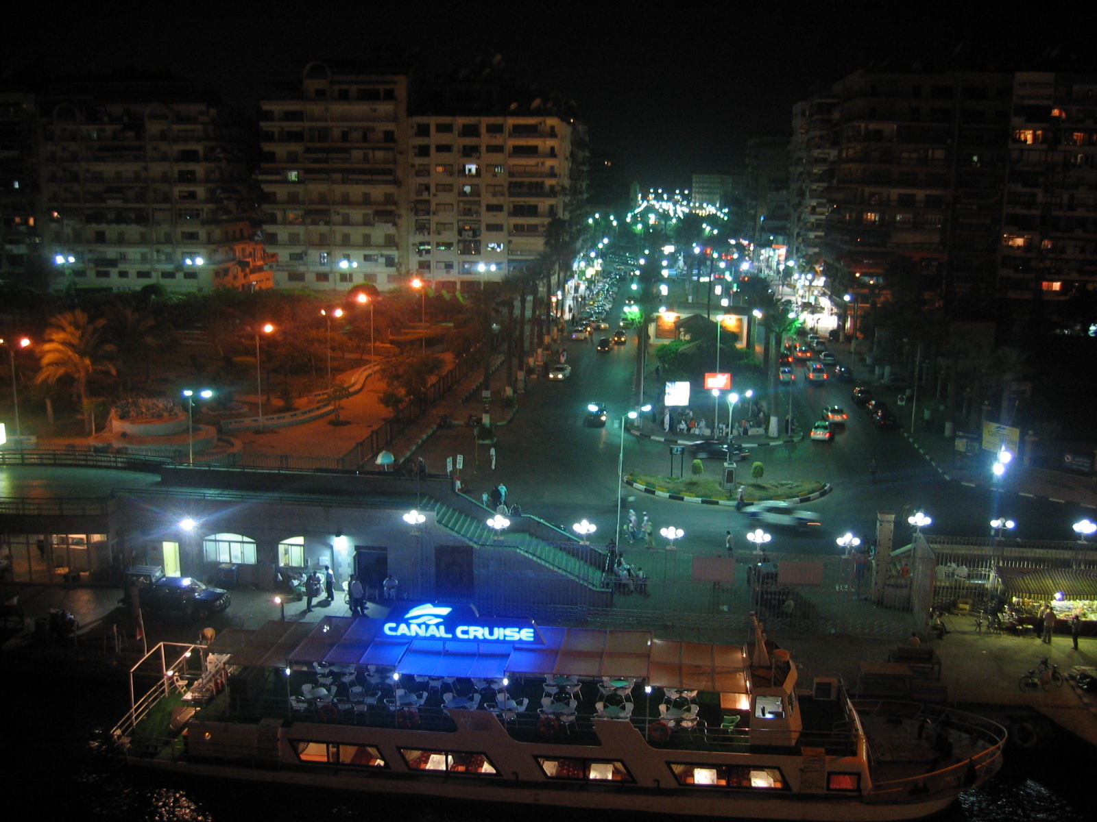 Cruise ship pier of Port Said, Egypt